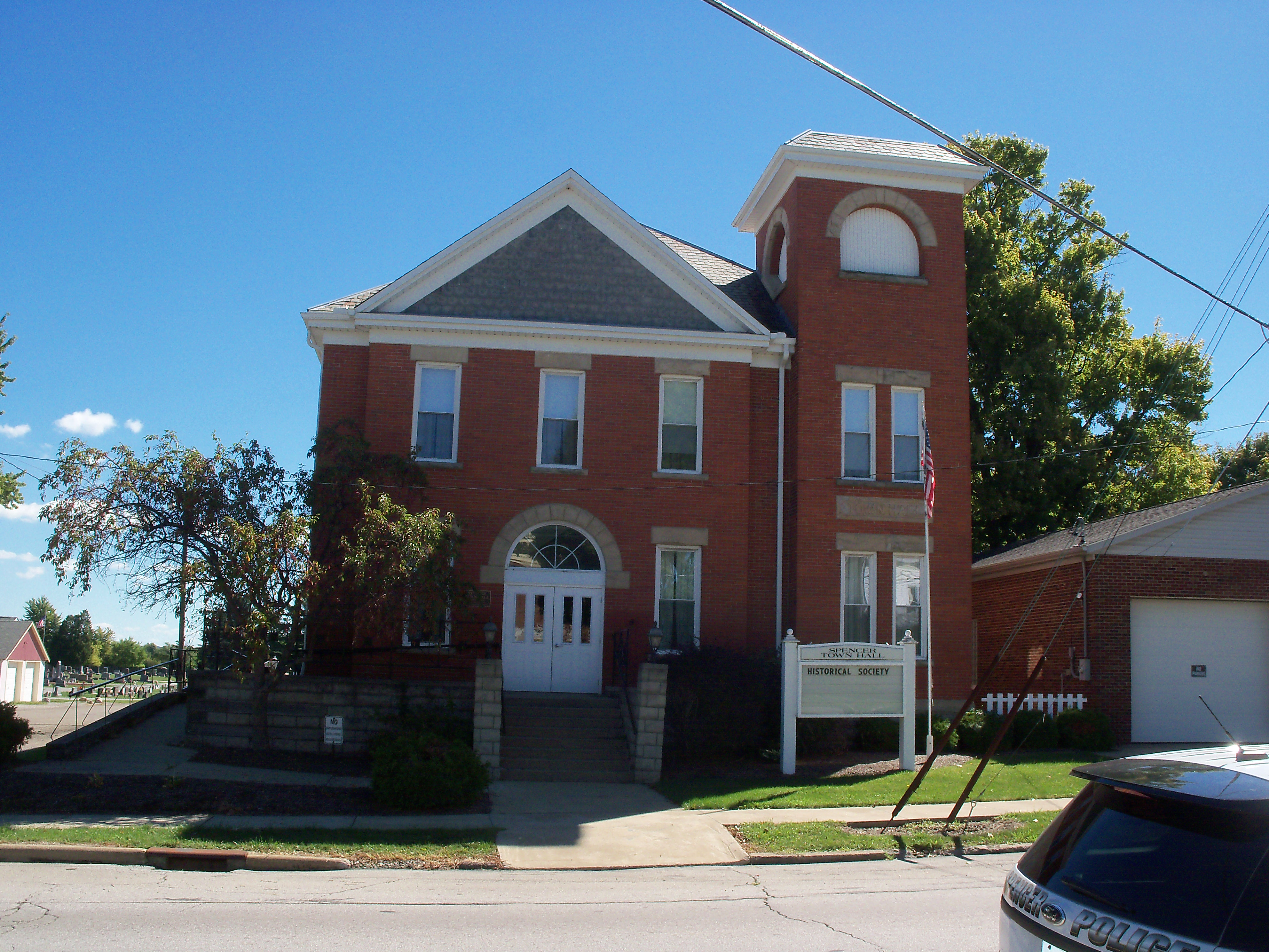 This building was town hall in Spencer, Ohio 1898 - 1998. It now houses the Spencer Historical Society